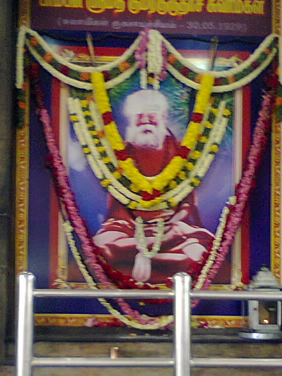 The image kept at his samadhi in Tiruvanmiyur , Chennai.